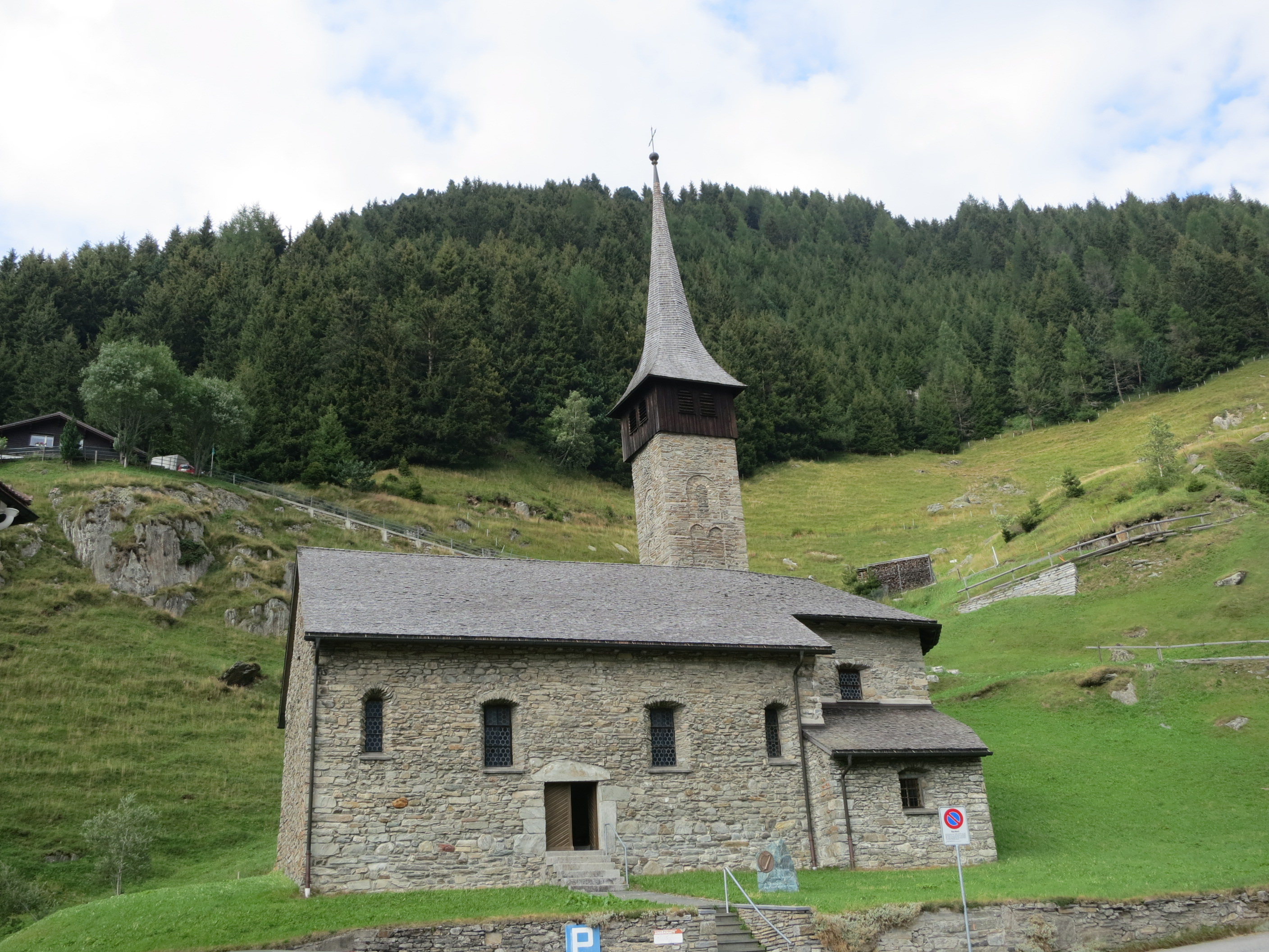 Alte Kirche St. Kolumban, Andermatt UR, Schweiz